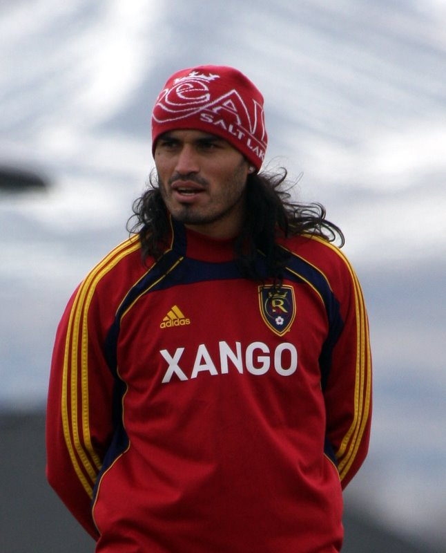 Fabian Espindola with Real Salt Lake